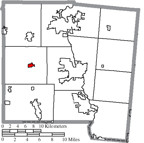 Map of the municipal and township boundaries of Miami County, Ohio, United States, as of the 2000 census, with the location of the village of Pleasant Hill highlighted. Township borders are shown only in unincorporated areas in order to differentiate incorporated and unincorporated areas more clearly.